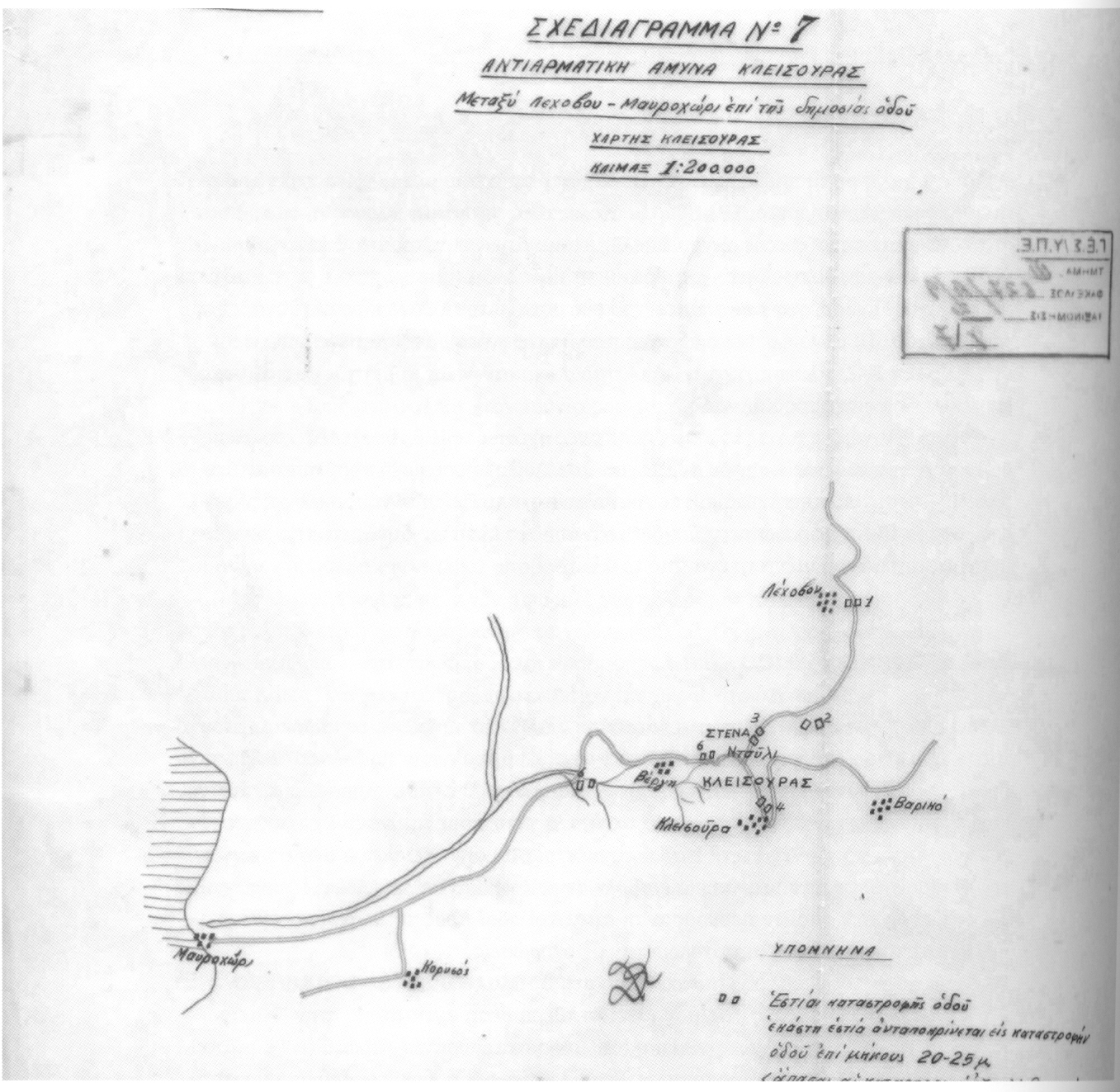 Plan of the Greek anti-tank defense in Kleisoura, Kastoria, during the 2nd World War-Preparation of the defense of the Greek army for the battle, that took place on 'Daouli' on 11-12/04/1941